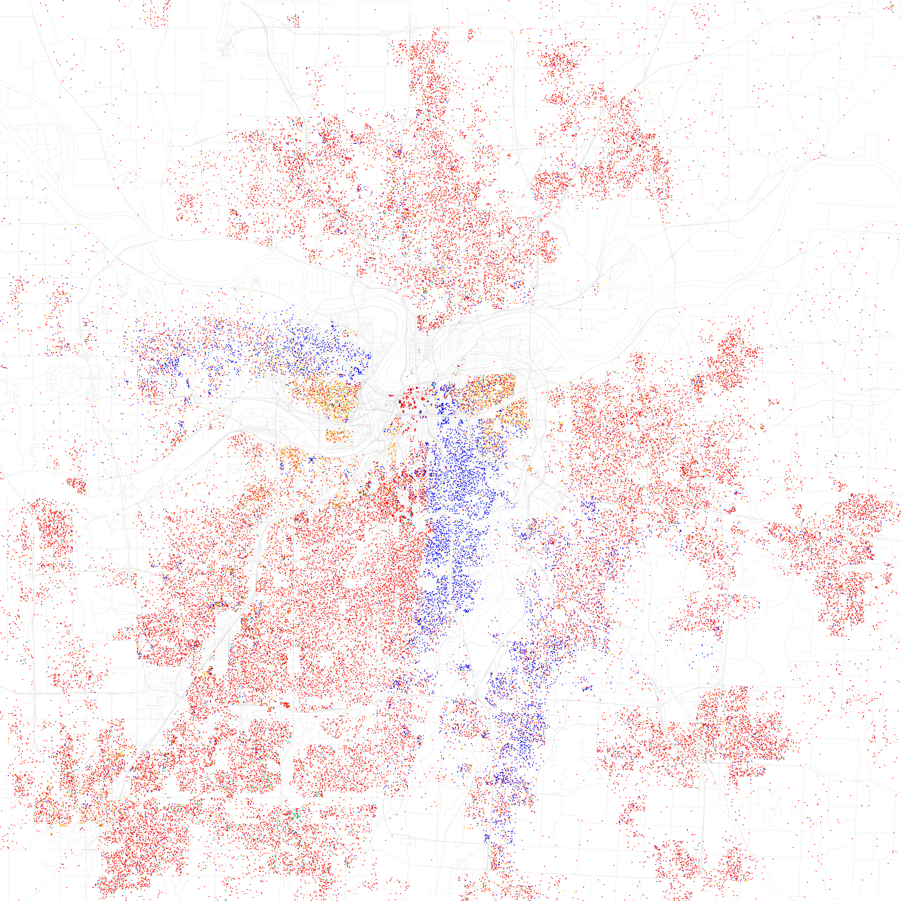 Maps of racial and ethnic divisions in US cities, inspired by Bill Rankin's map of Chicago, updated for Census 2010. Red is White, Blue is Black, Green is Asian, Orange is Hispanic, Yellow is Other, and each dot is 25 residents. Data from Census 2010. Base map © OpenStreetMap, CC-BY-SA